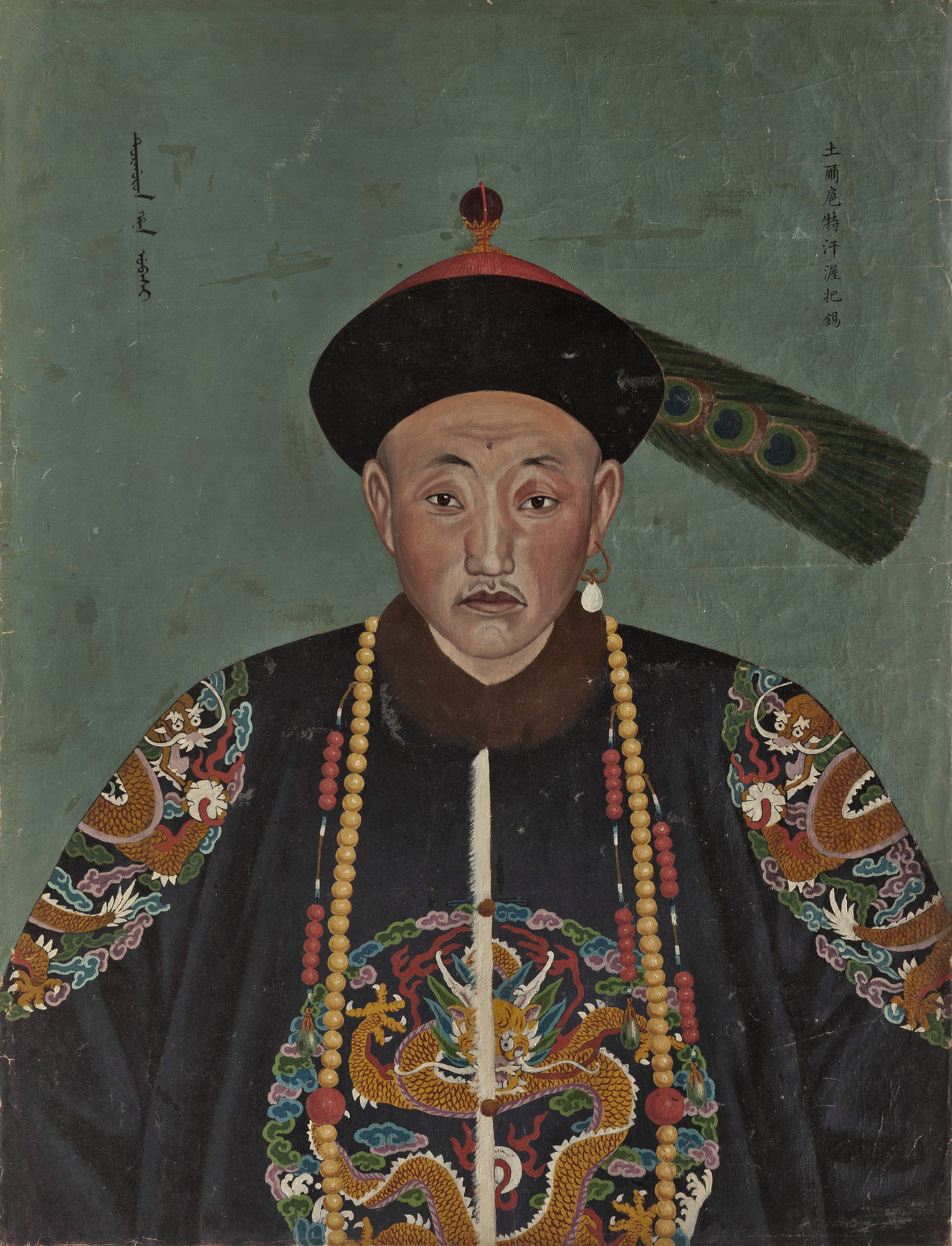 Ubashi Kahn, 1724-1775 Oil Painting, Reiss-Museum Mannheim Image